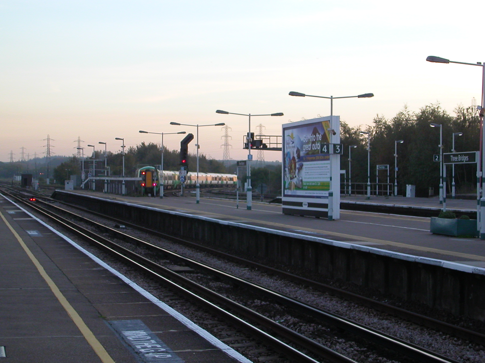 London Victoria-Chichester train departing Platform 3 at Three Bridges.